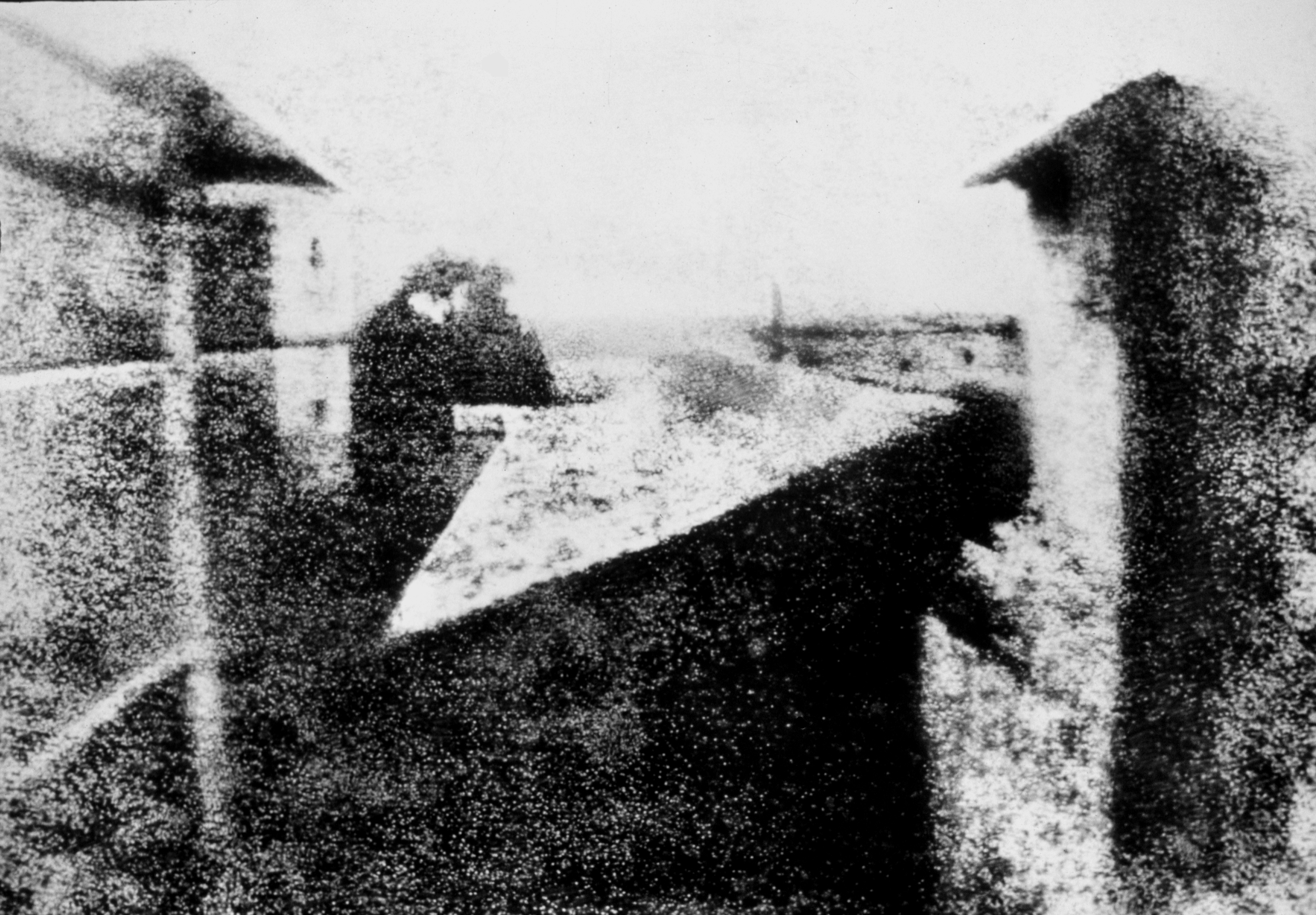 Enhanced version by the Swiss Helmut Gersheim (1913–1995), performed ca. 1952, of Niépce's View from the Window at Le Gras, (Harry Ransom Humanities Research Center, University of Texas, Austin)View from the Window at Le Gras, the first successful permanent photograph created by Nicéphore Niépce in 1827, in Saint-Loup-de-Varennes (Saône-et-Loire, Bourgogne, France). Captured on 20×25 cm oil-treated bitumen. Due to the 8-hour exposure, the buildings are illuminated by the sun from both right and left.